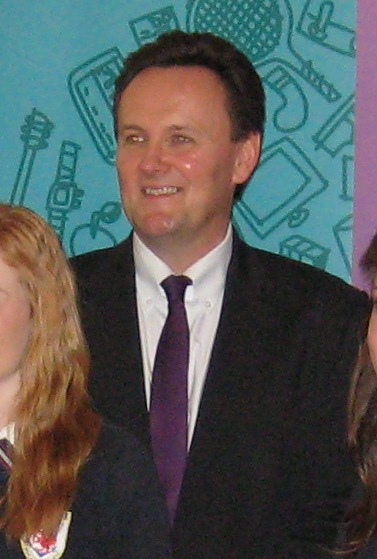 Keith Towler, Children's Commissioner for Wales